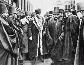 Mustafa Kemal with sufies from Mevlevi order while visiting Konya